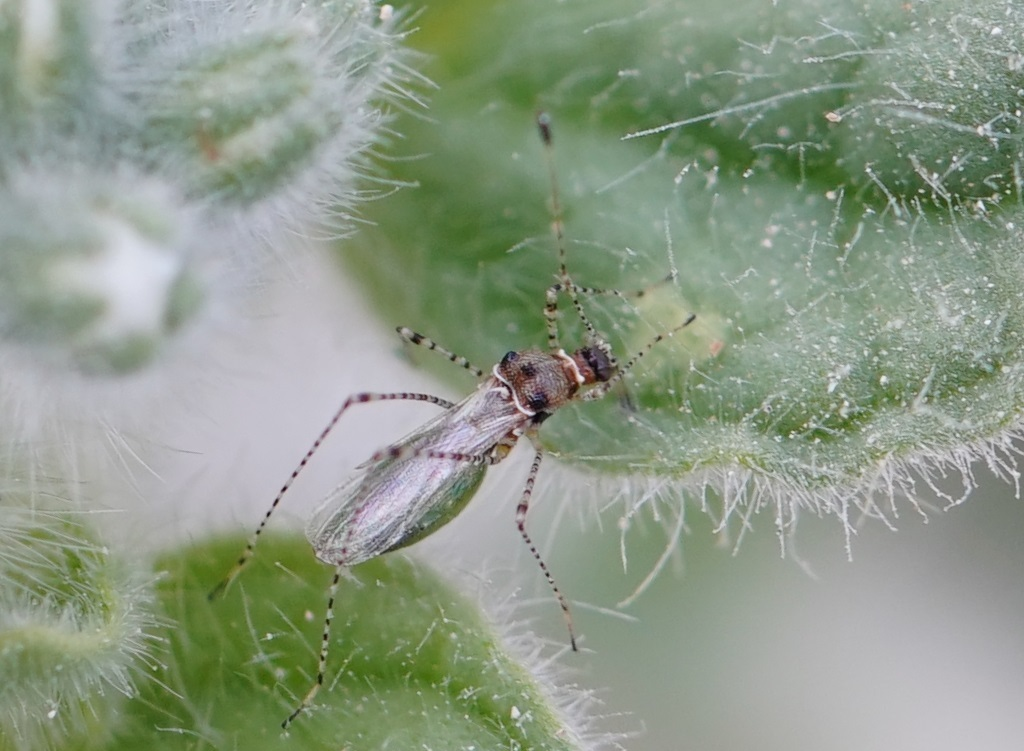 Gampsocoris punctipes